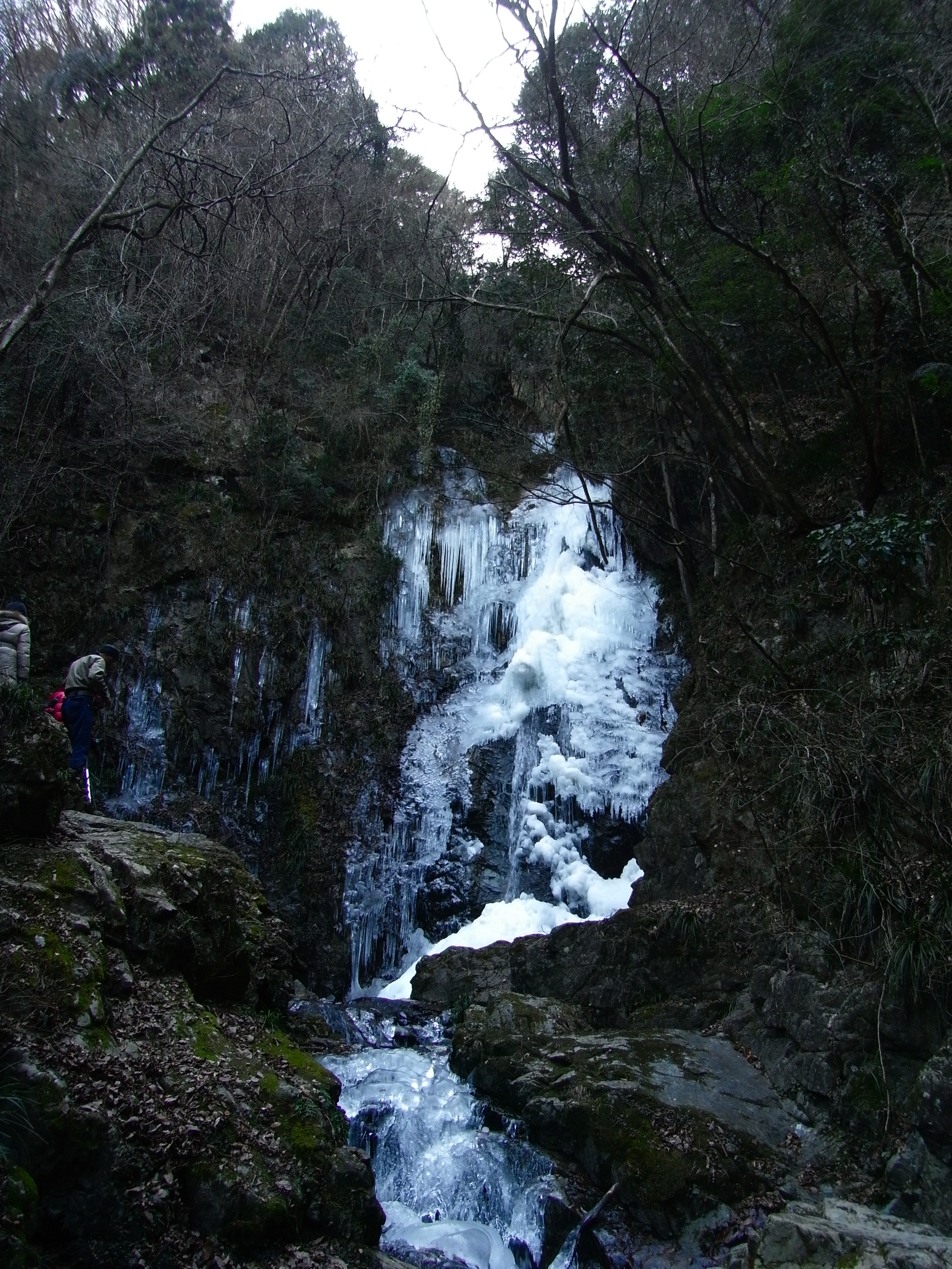 Hossawa Falls (払沢の滝)